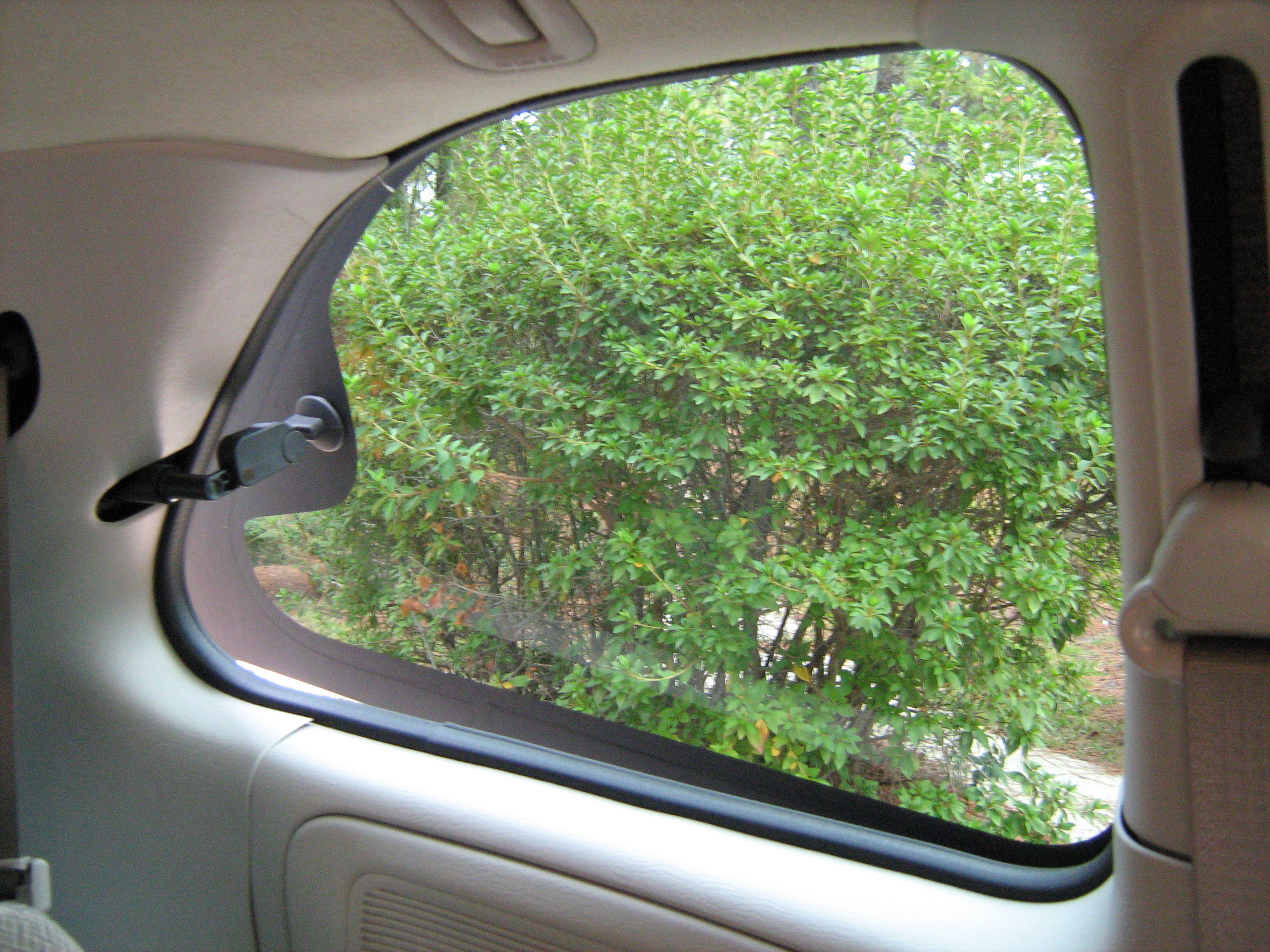 Interior view of "quarter glass" - venting position. Hinged window pane between the "C" and "D" pillars on a 2007 Chrysler Town & Country short-wheelbase minivan. It is remote, power operated.